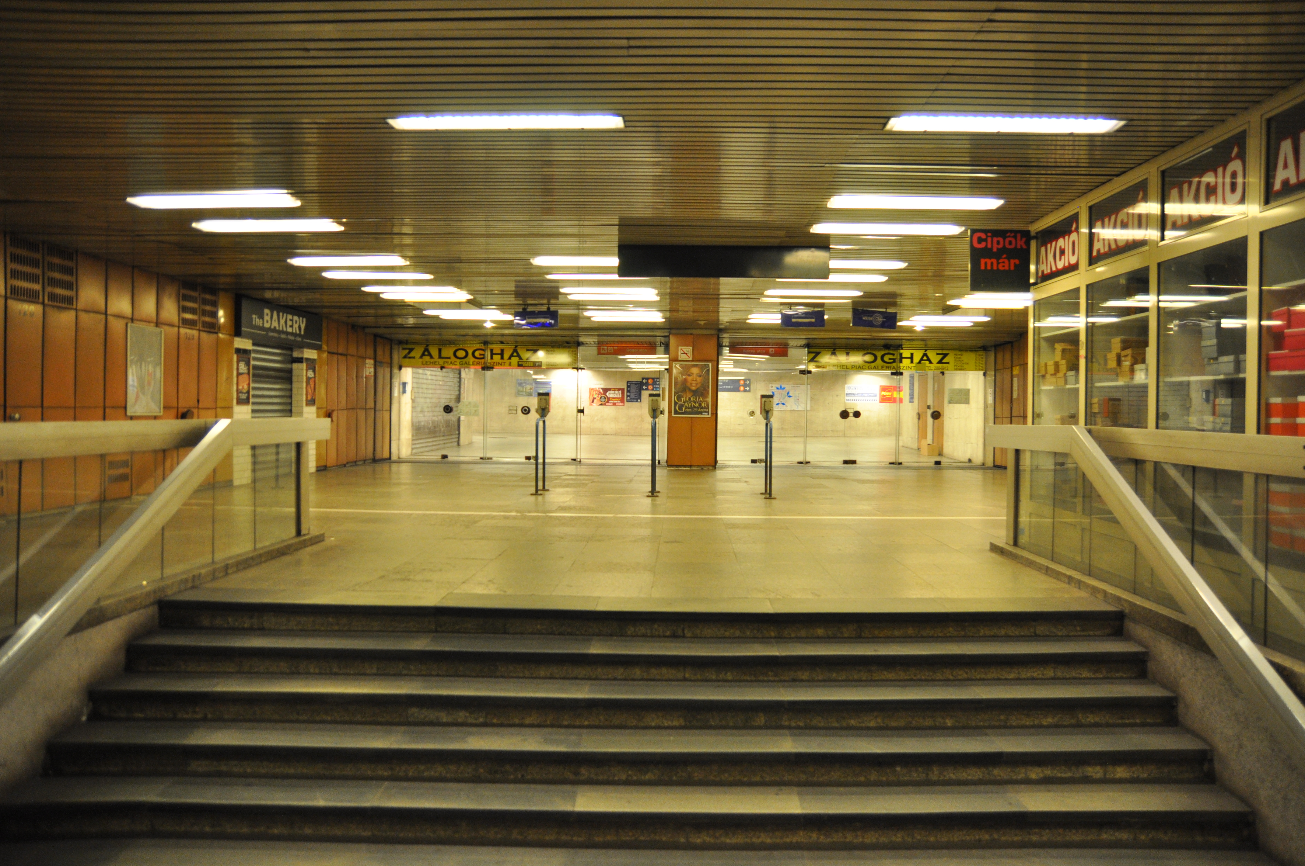 Budapest, metró 3, Lehel tér